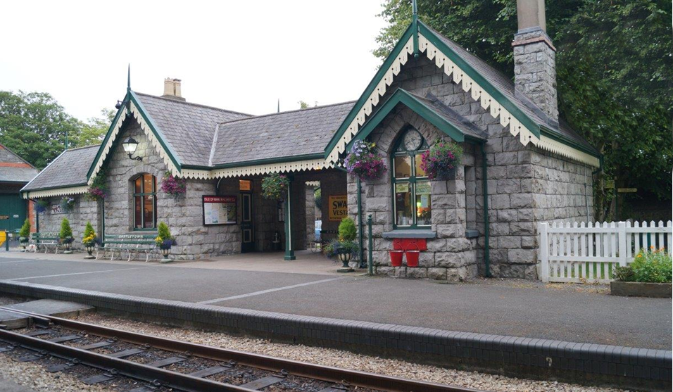 The original 1874 structure at Castletown on the Isle of Man Railway